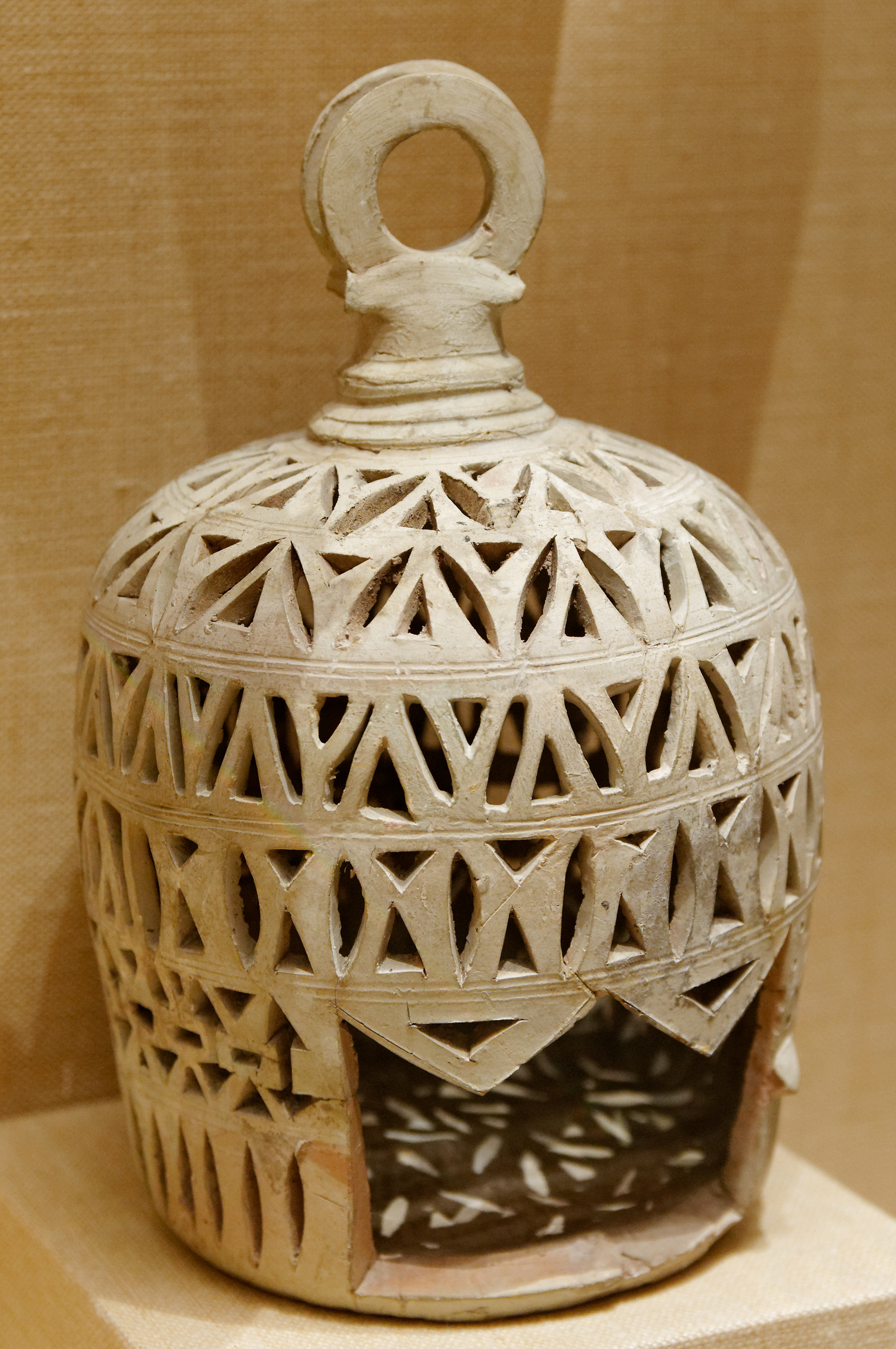 Openwork lantern for a lamp.